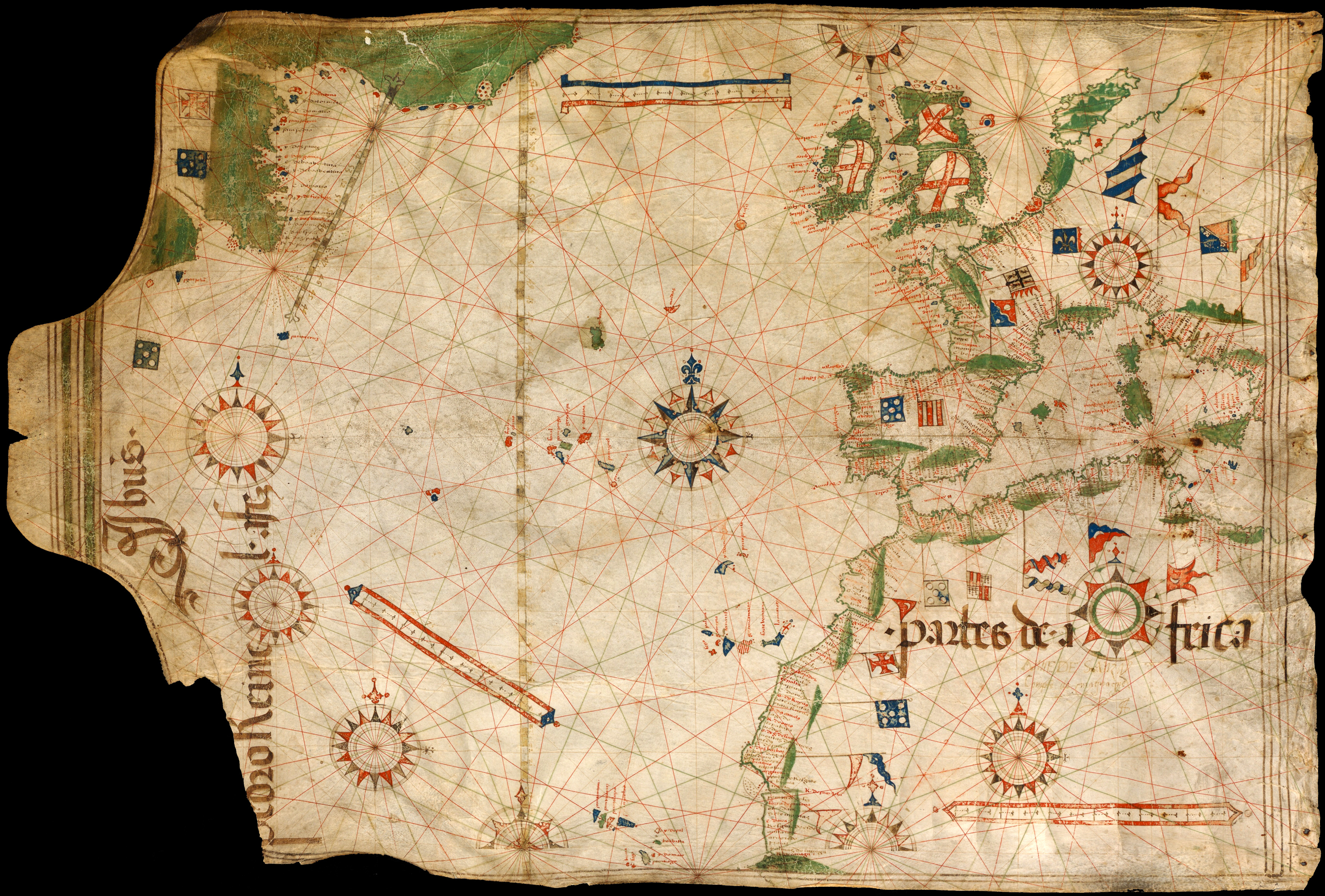 Portuguese nautical chart by Pedro Reinel, c. 1504